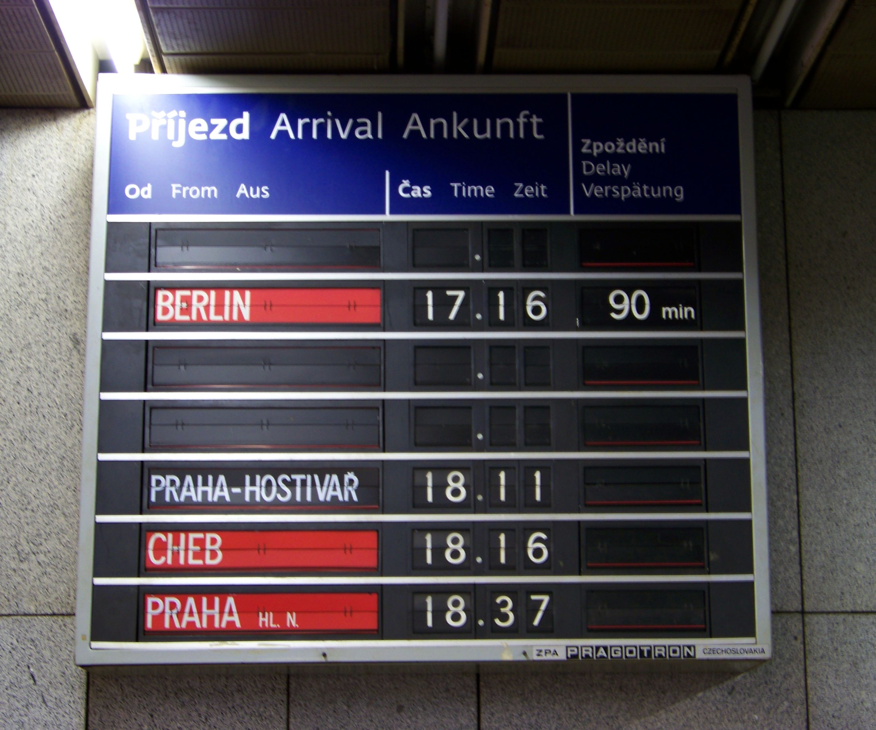 Prague-Holešovice, the Czech Republic. Praha-Holešovice railway station. Train arrival board.